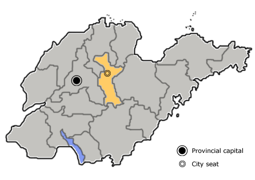 The prefecture-level city of Zibo is highlighted on this map of Shandong province, People's Republic of China.